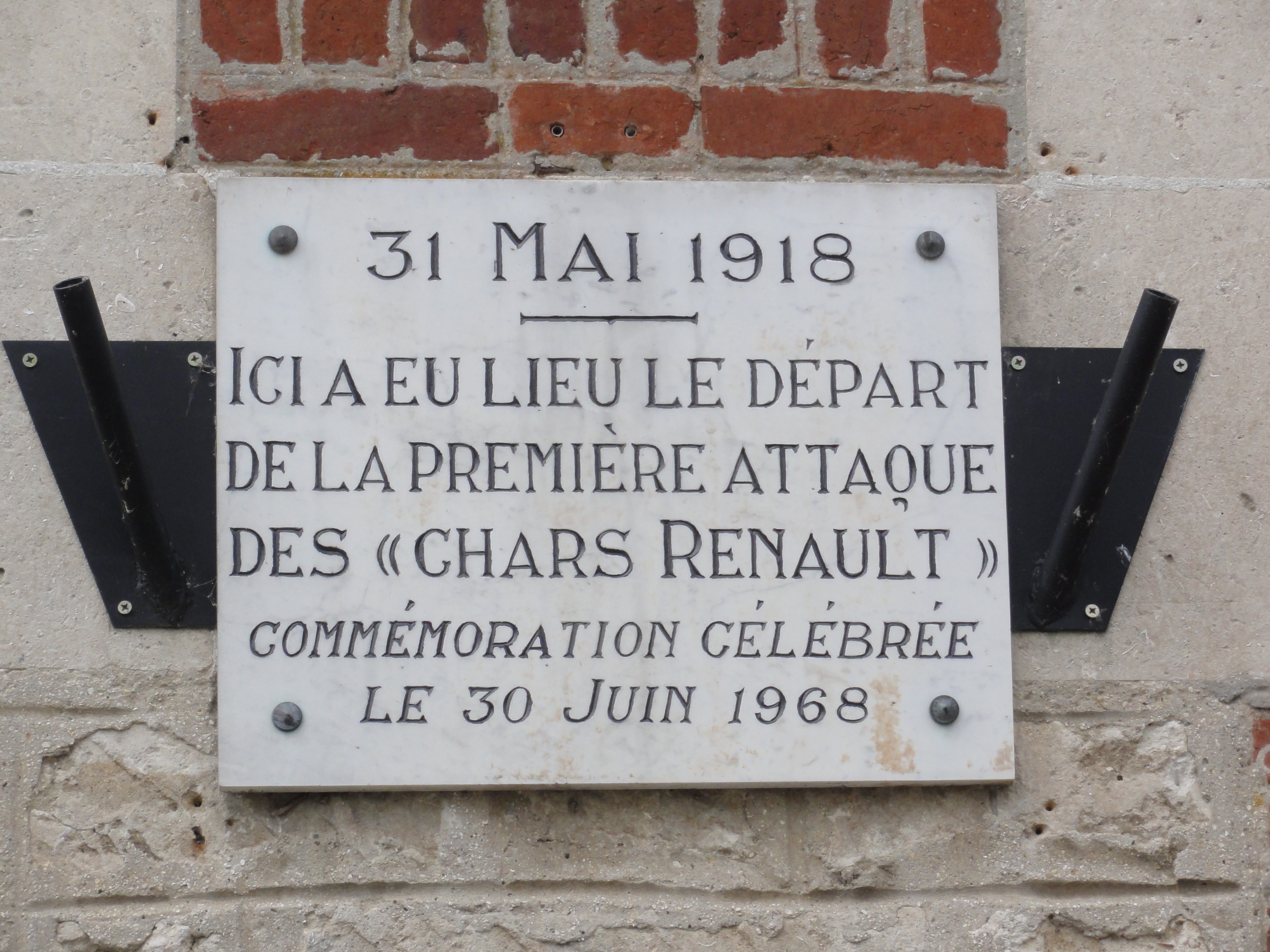 Saint-Pierre-Aigle (Aisne) plaque Chars Renault sur une maison